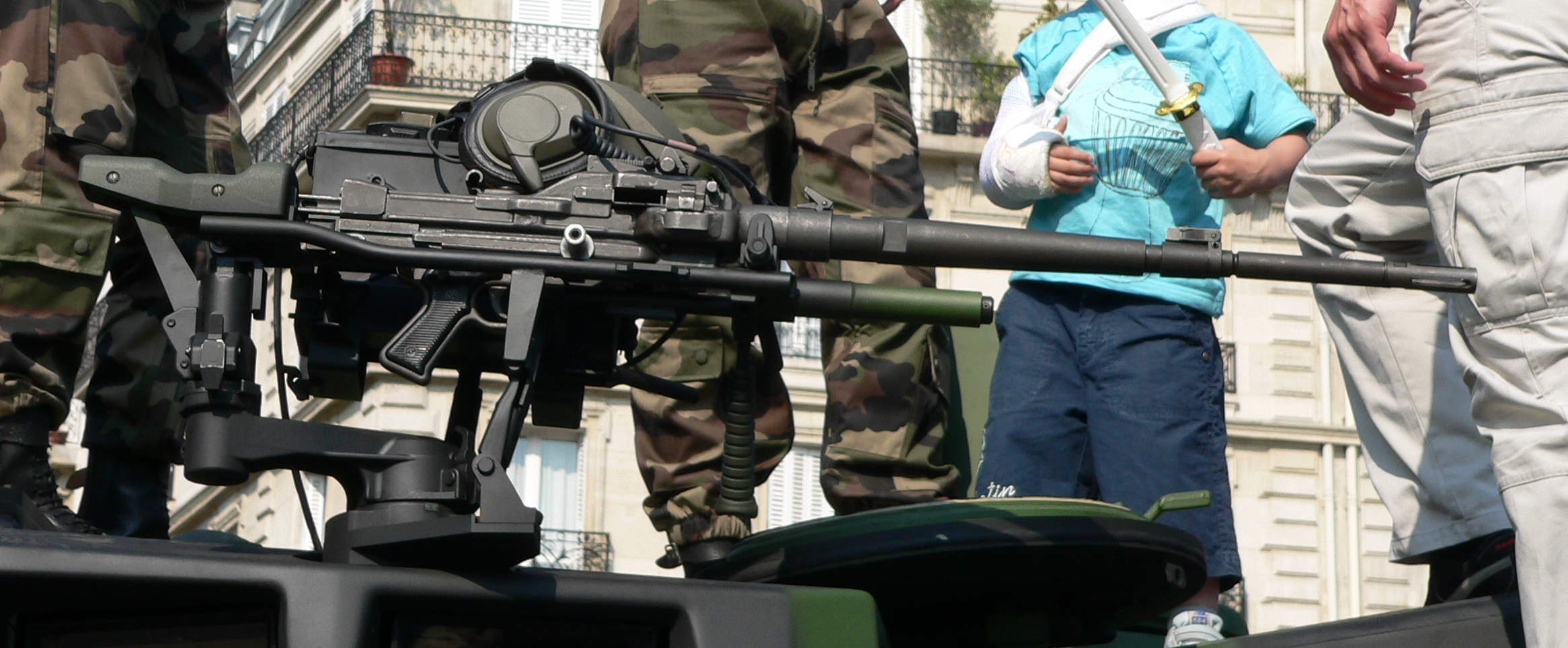 Machine gun mounted on a French VBL armored vehicle Military parade, Avenue des Champs-Élysées, 14 July 2006